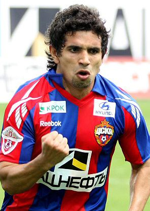 Brazilian forward Guilherme